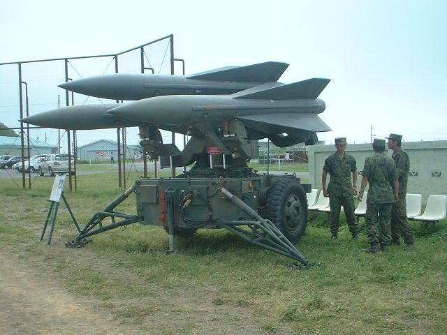 JGSDF Improved-Hawk AA Missile on Launcher.